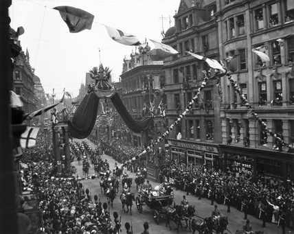 Procession passing along a busy London thoroughfare during the Coronation of Edward VII (1841-1910) on 9 August 1902.[1]